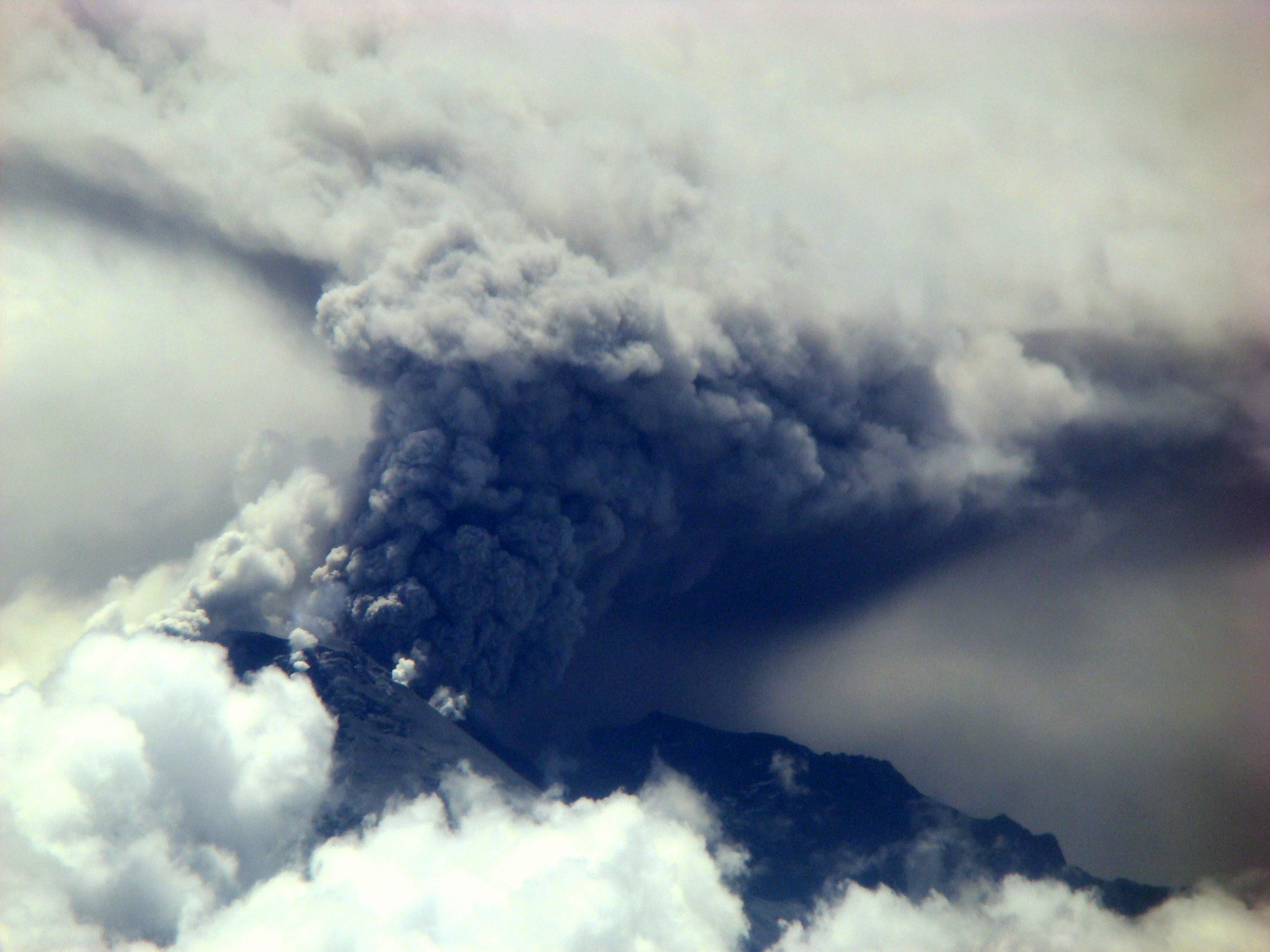 Seen on flight from Popayán to Bogotá.